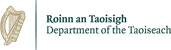 This is the Logo of the Department of the Taoiseach (Prime Minister) as of April 2018, created by the Irish Government